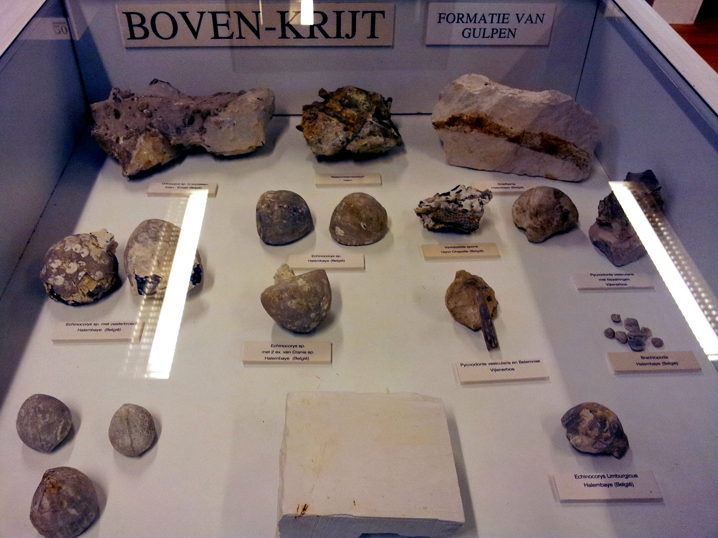 Cretaceous fossils from Vijlen (NL), Eben-Emaël, Halembaye and Henri Chapelle (B), fossil collection of Museum Het Land van Valkenburg, Limburg.